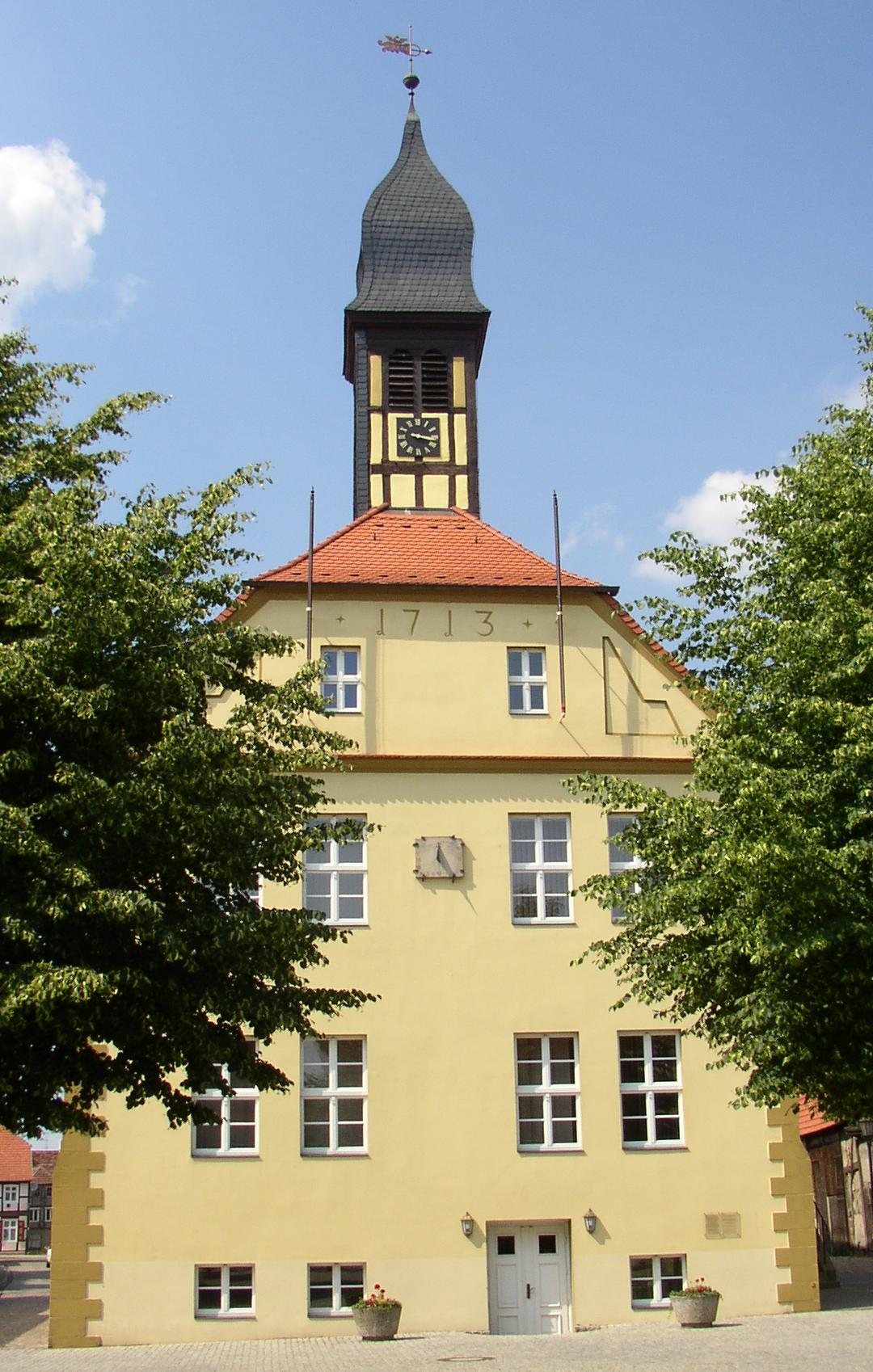 Town hall in Lenzen in Brandenburg, Germany